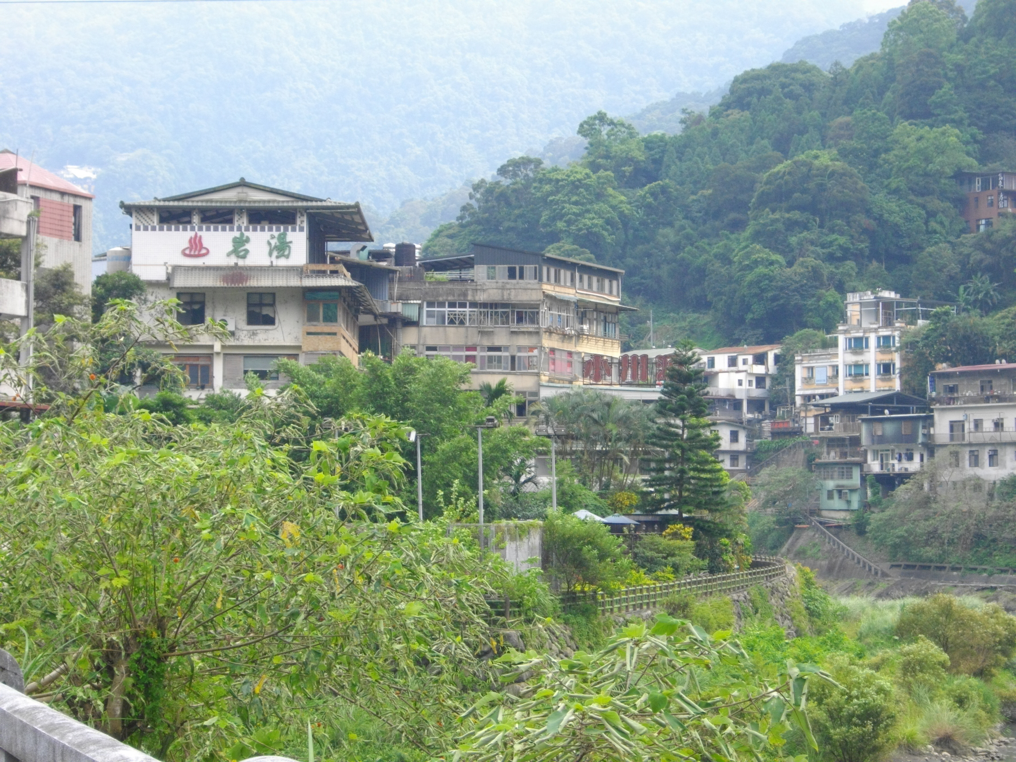 Wulai Hot Springs